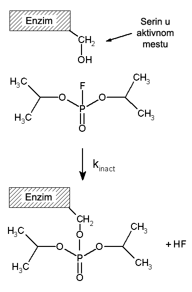 Reaction of the irreversible inhibitor diisopropylfluorophosphate (DFP) with a serine protease. [translated into Serbian]